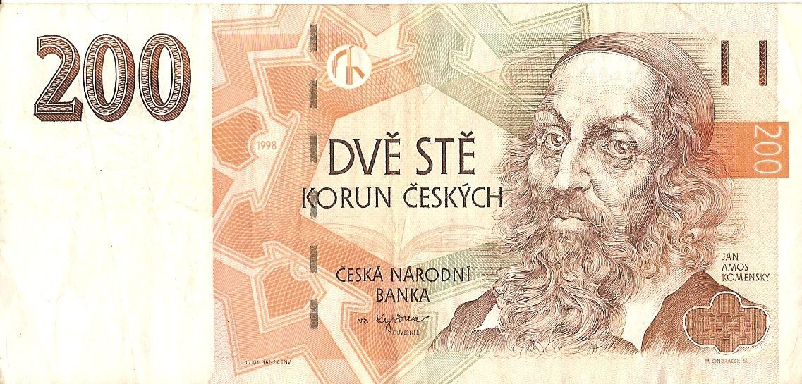 200 Czech korunas